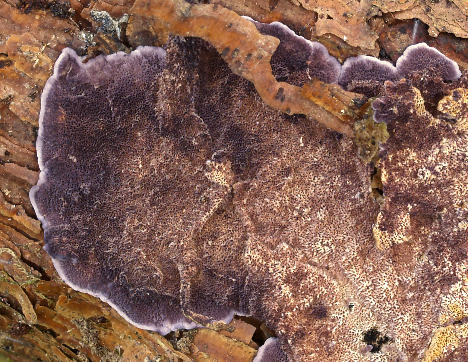 Purplepore Bracket